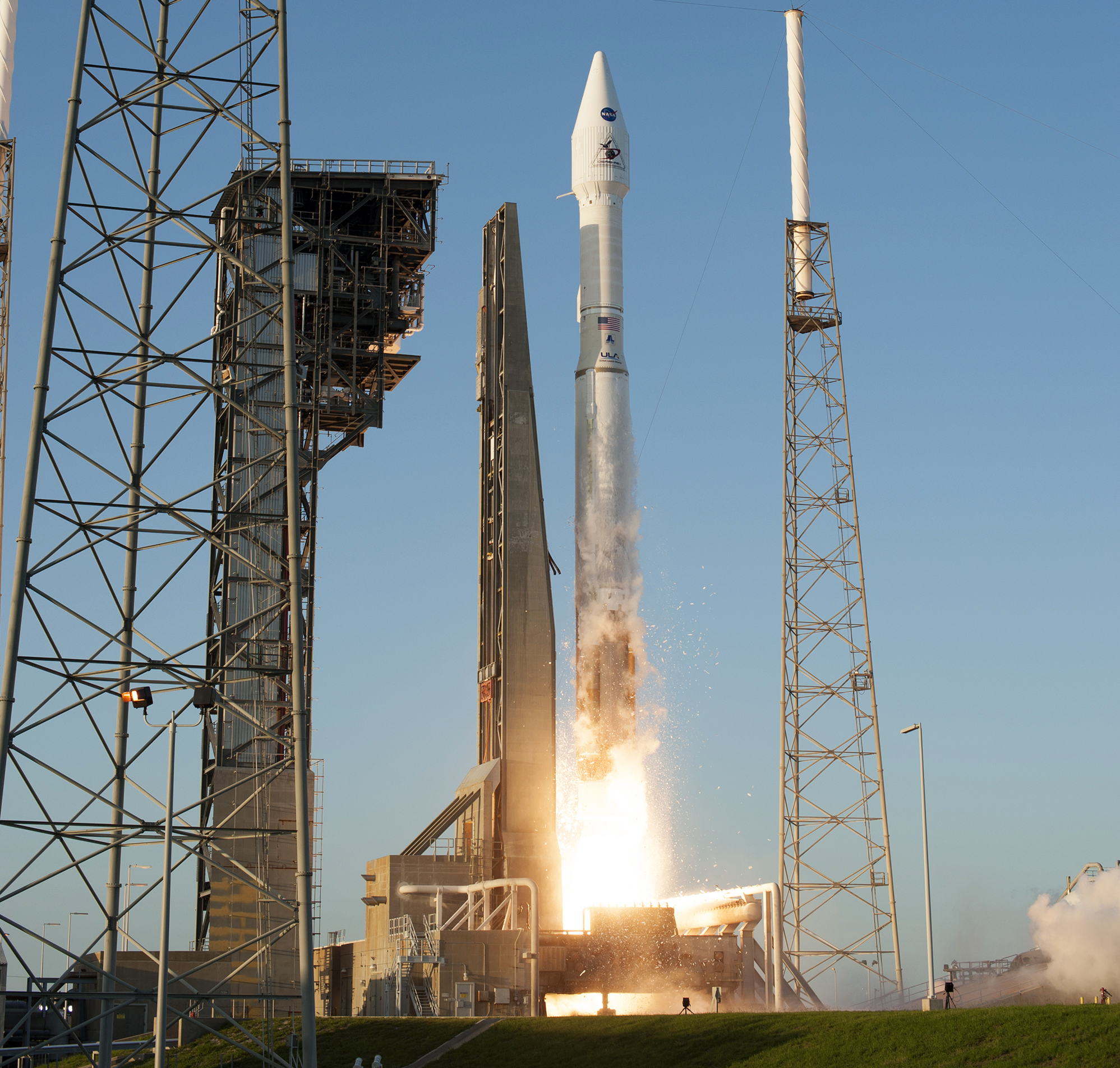 Liftoff of the Spacecraft OSIRIS-REx from Pad 41.